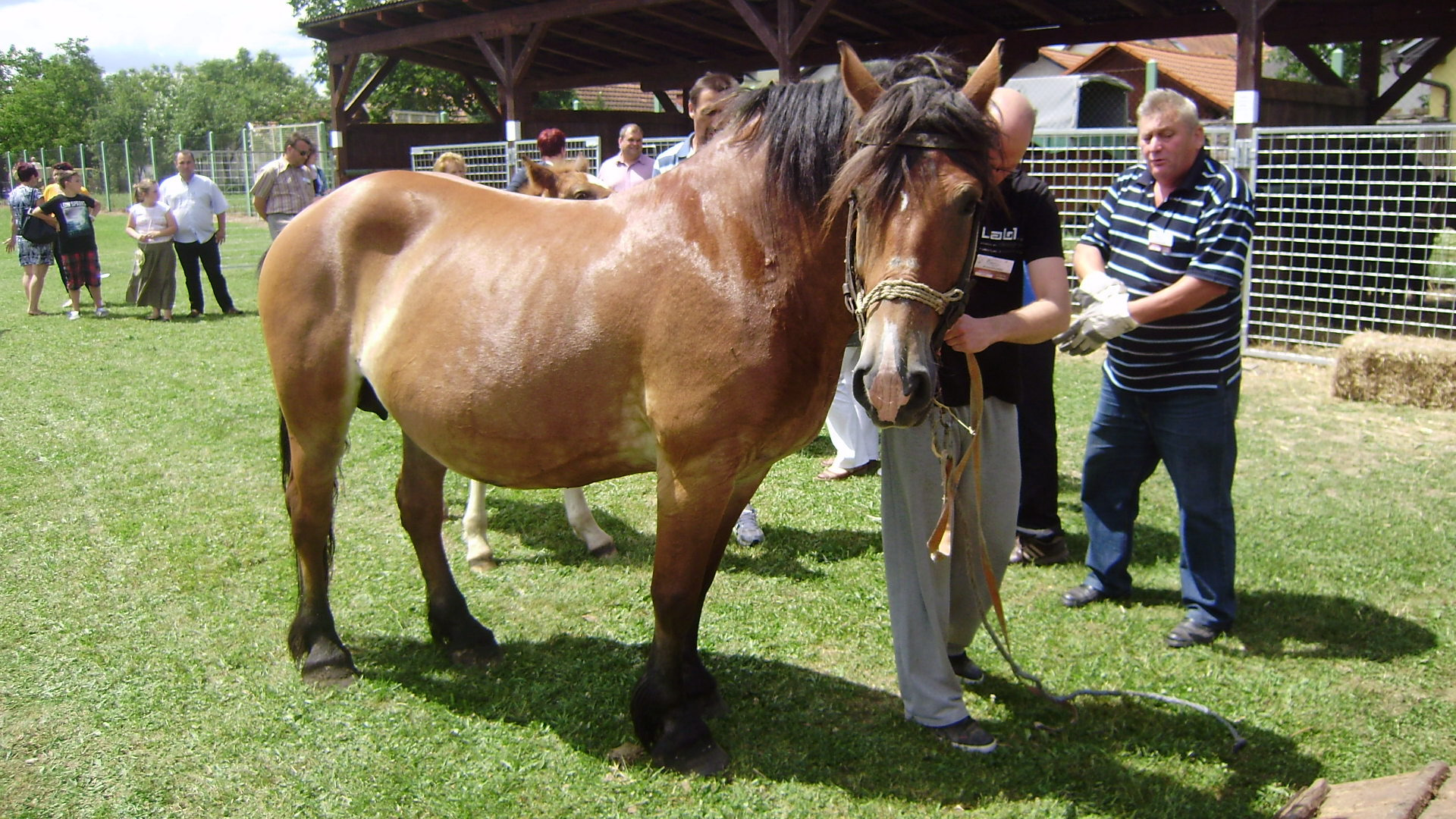 Međimurski konj (Međimurec, Medjimurie horse) = horse breed of Medjimurje, northern Croatia, at 2014 MESAP Trade Fair in Nedelišće, Medjimurje County (June 15th, 2014) - bay mare